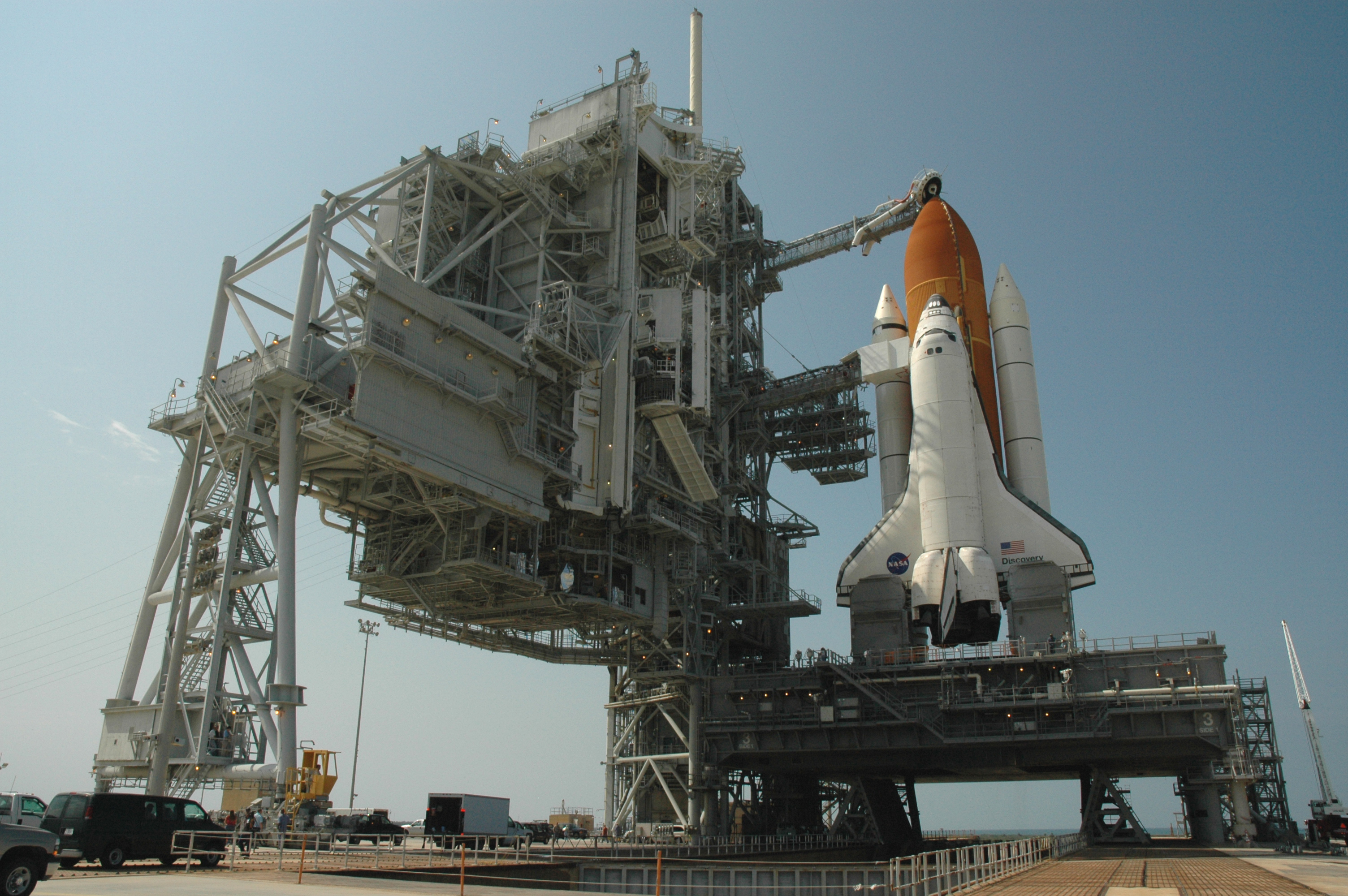 Space Shuttle Discovery in full launch configuration is revealed after the Rotating Service Structure (RSS) is rotated back at Launch Pad 39B at Kennedy Space Center.